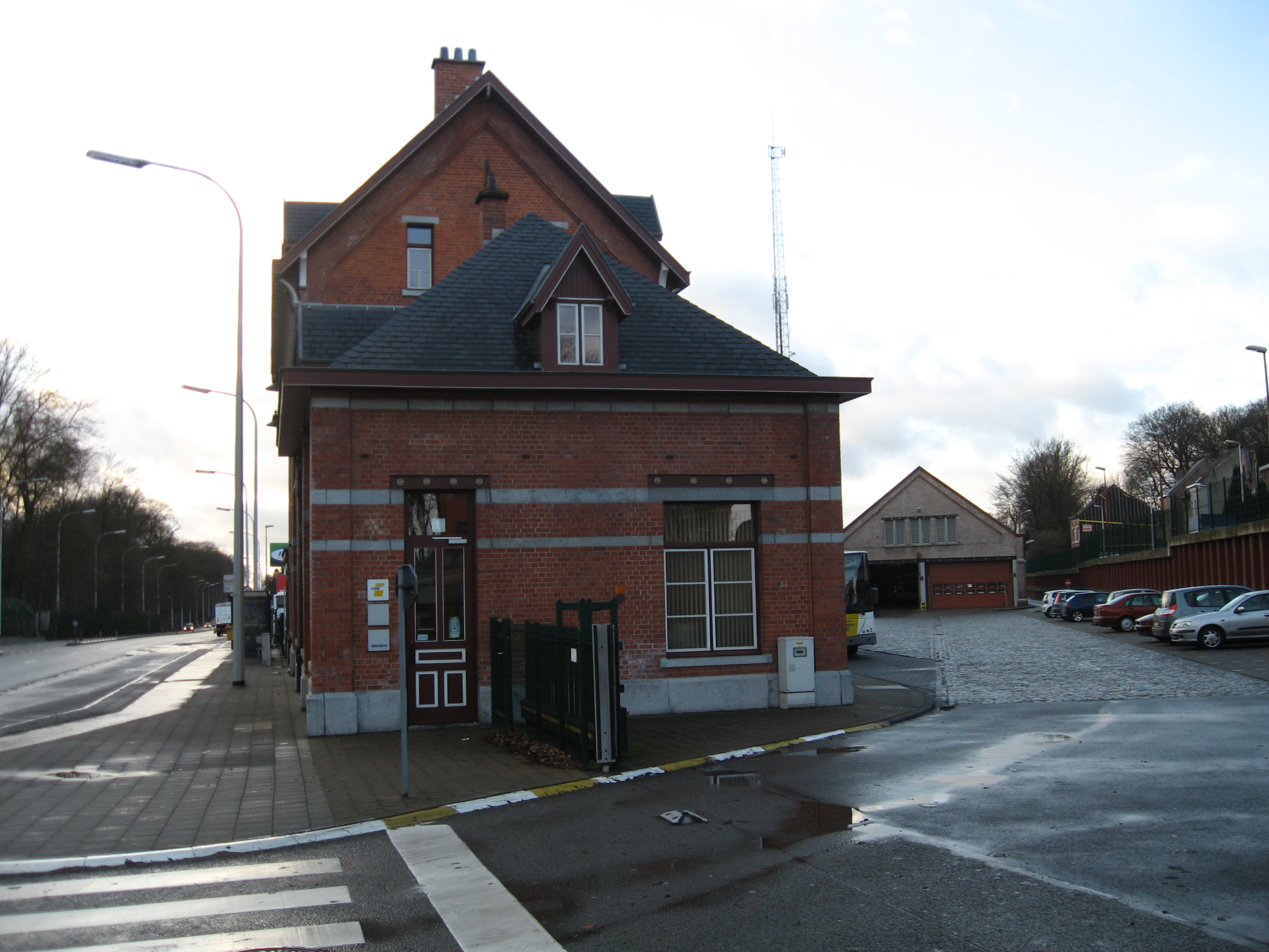 Old garage off the vicinal railways in Dilbeek (Brussels regio). Is now reused bij "De Lijn" buses. Many tramlines had there startingpoint here. (look at map)